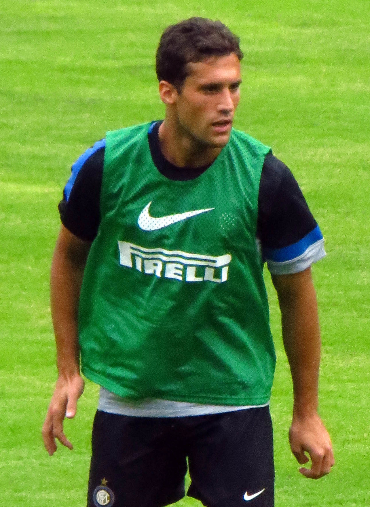 Matías Silvestre during Inter pre-season